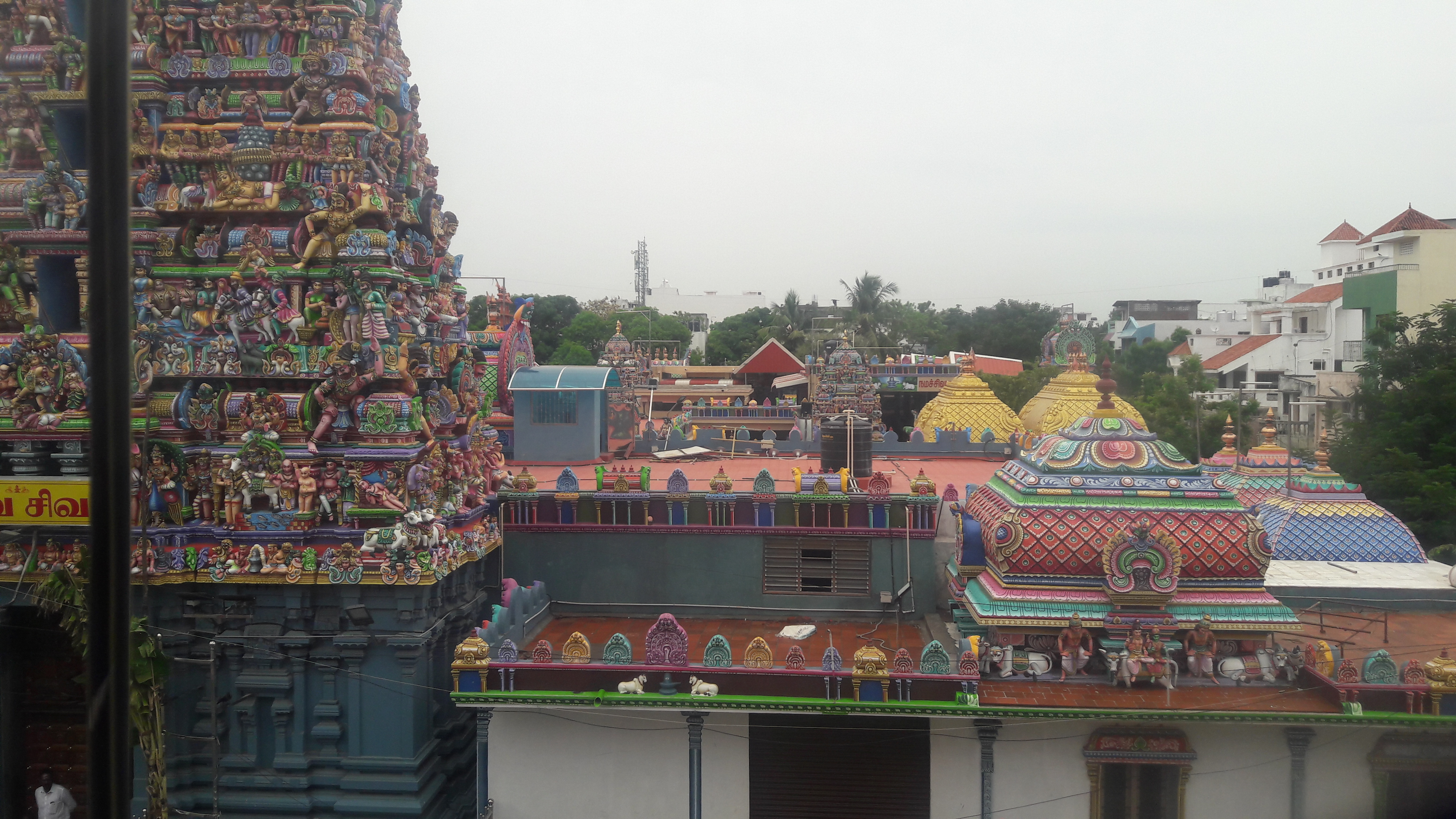 Vedapureeswarar Temple, Pondicherry